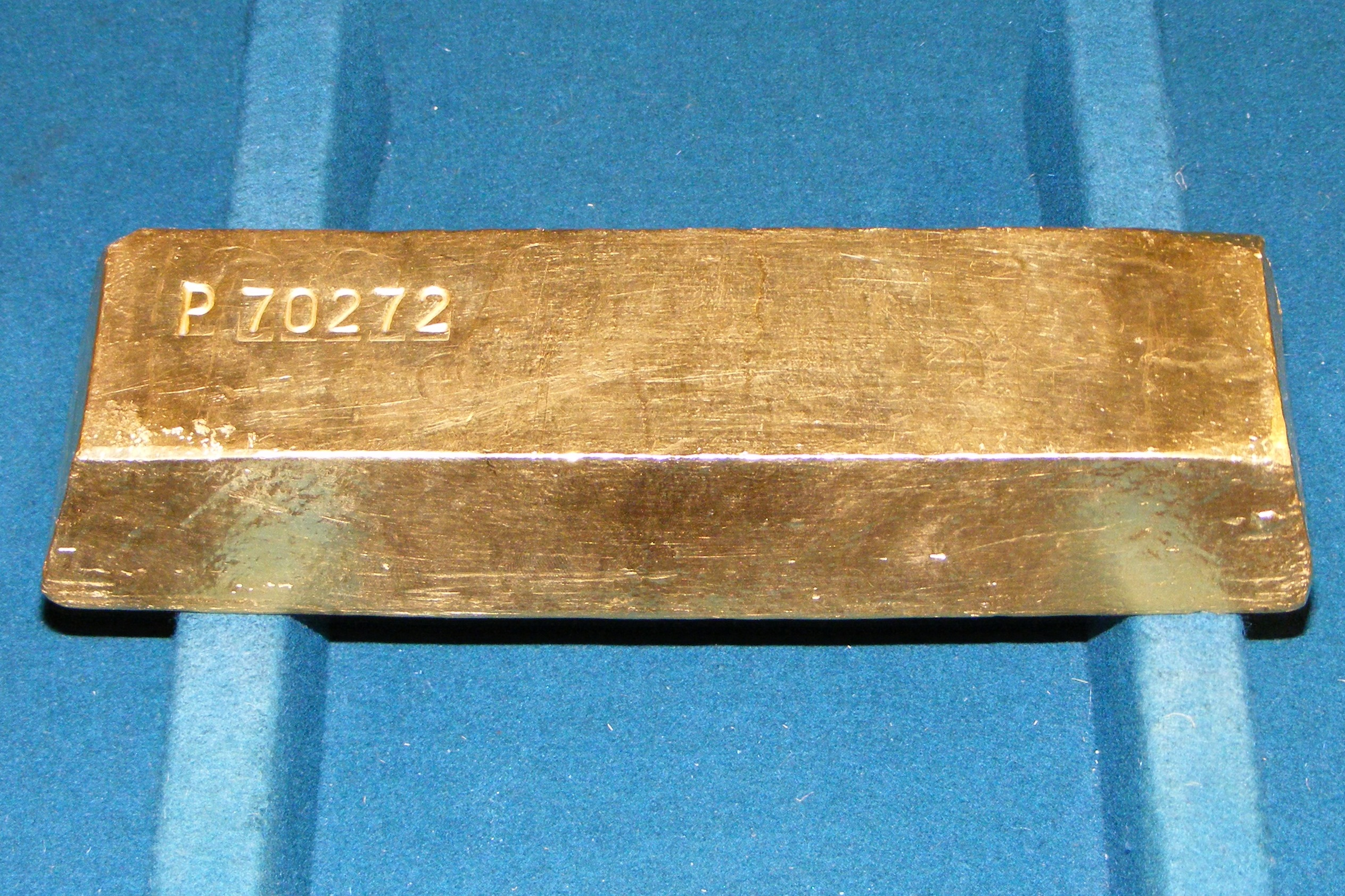 Gold bar with a weight of 400 troy-ounces (12.441 kg). Gold bars of this size are usually used only for banking purposes